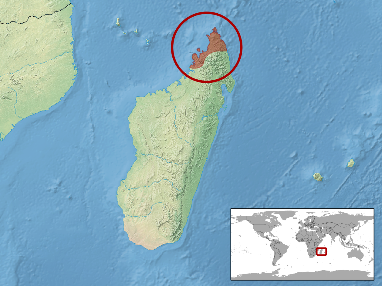 geographic distribution of Paroedura oviceps (Native: Madagascar)